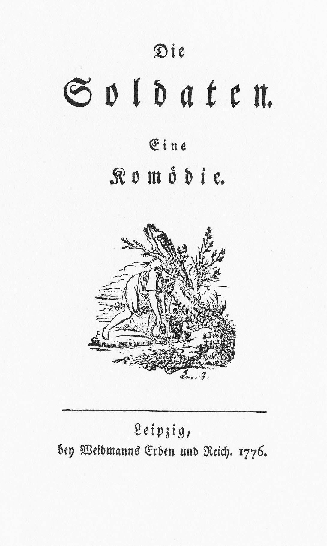 Title of the historical book "Die Soldaten"